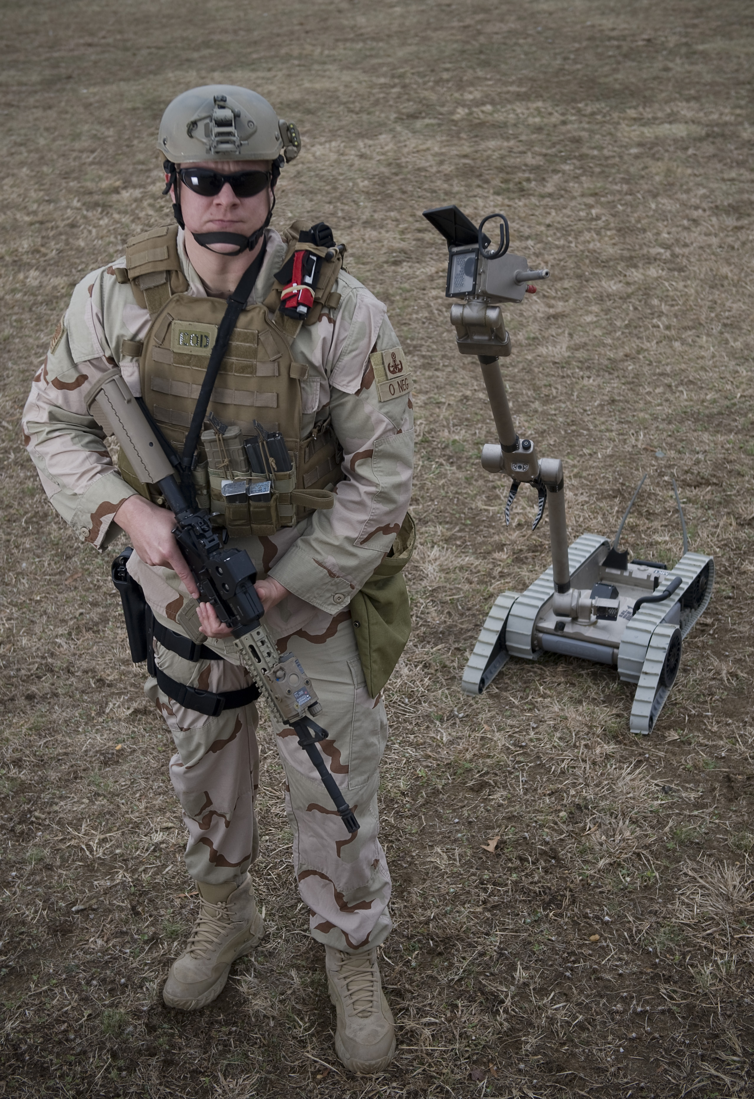 INDIAN HEAD, Md. (March 10, 2009) Explosive ordnance disposal technicians are using remote-controlled machines to help detect and defuse improvised explosive devices. (U.S. Navy photo by Mass Communication Specialist 2nd Class Jhi L. Scott/Released)